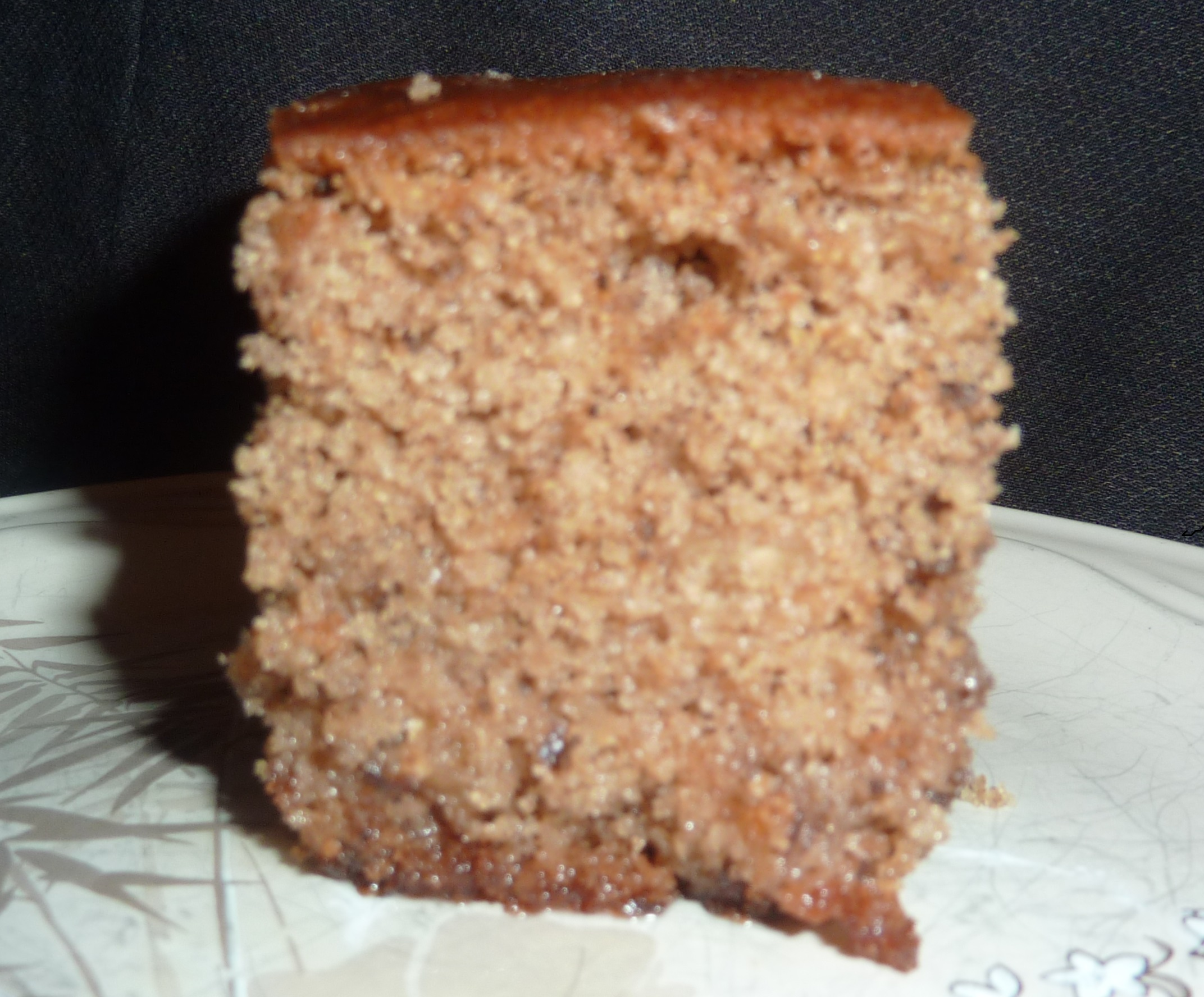 pecan pie